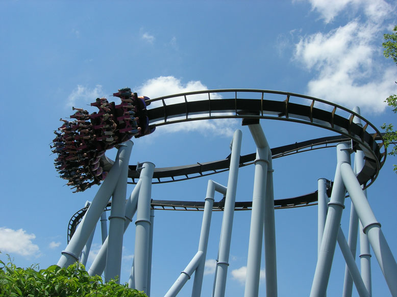 Great Bear at Herhseypark Photo by Ryan Painter